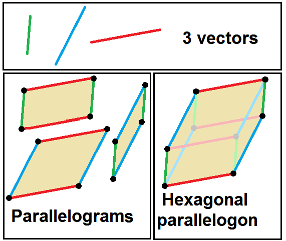 Parallelogons